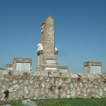 Doiran Memorial, near Doiran Military Cemetery, which is situated near the former town of Doirani in the north of Greece close to the Macedonia border and near the south-east shore of Lake Doiran.